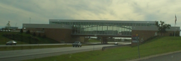 Belvidere Oasis, a highway oasis located along Interstate 90 near Rockford, Illinois.